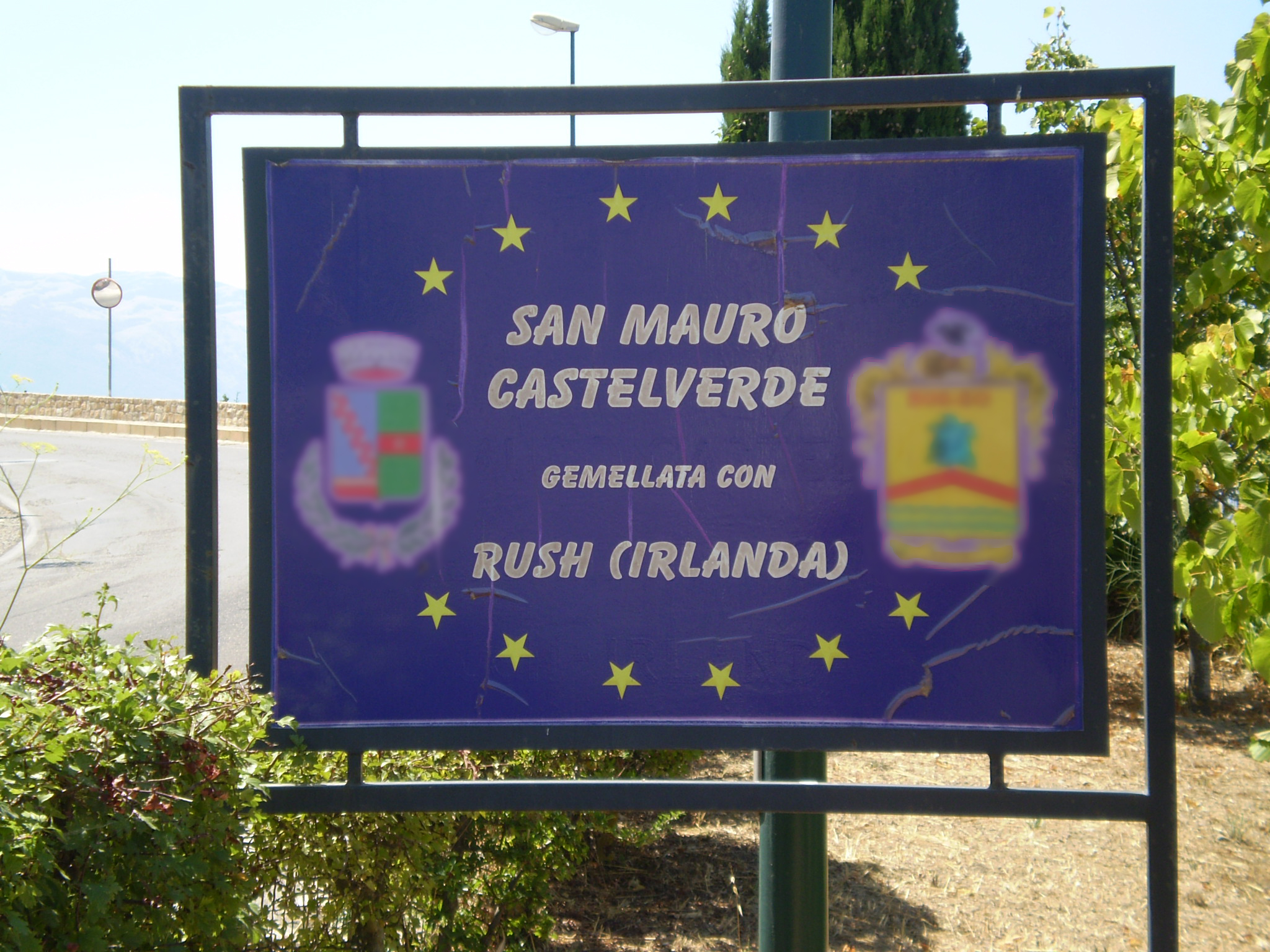 San Mauro Castelverde: Twinning with Rush (Ireland).